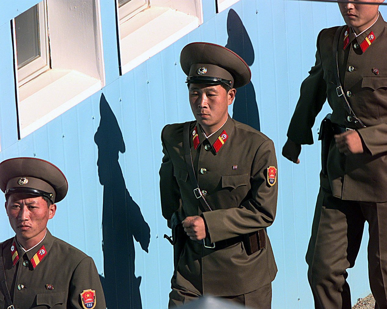 The Democratic Peoples Republic of Korea (DPRK), also, North Korea, People's Army guards march in formation to their appointed posts during a repatriation ceremony in the Panmunjom Joint Security Area.